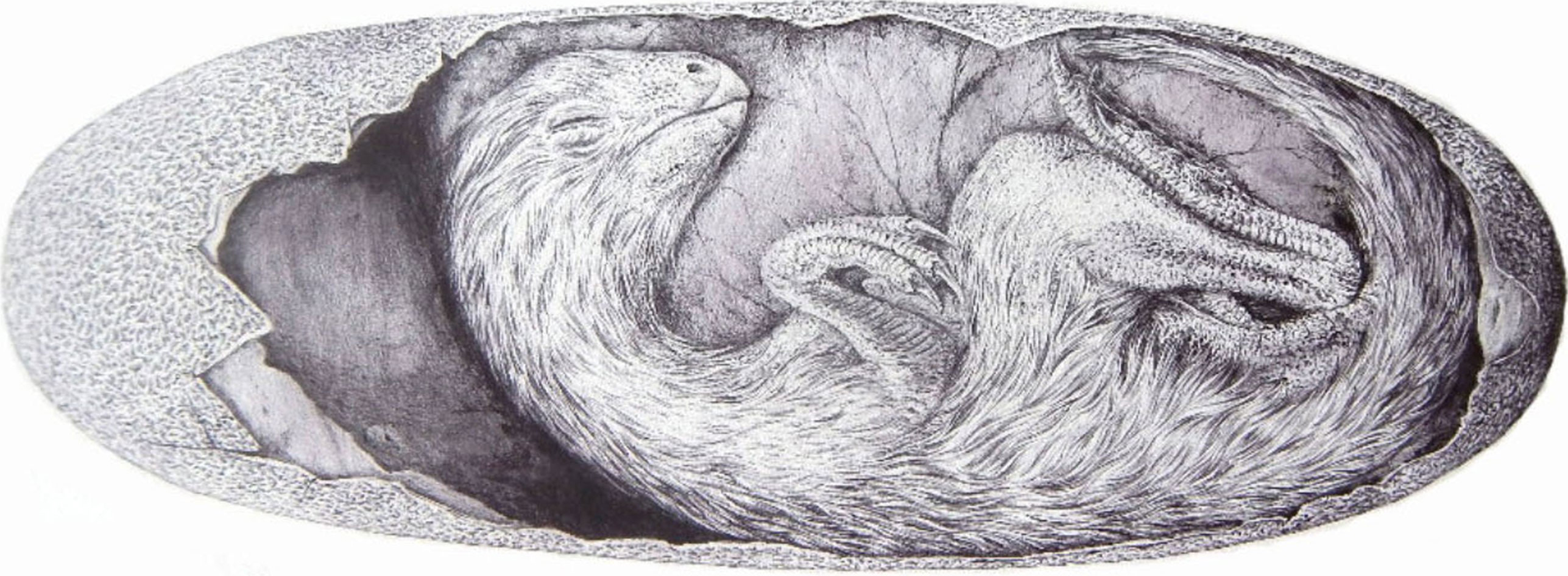 The drawing shows the approximate size of the Beibeilong embryo inside a Macroelongatoolithus egg (drawn by Vladimir Rimbala).